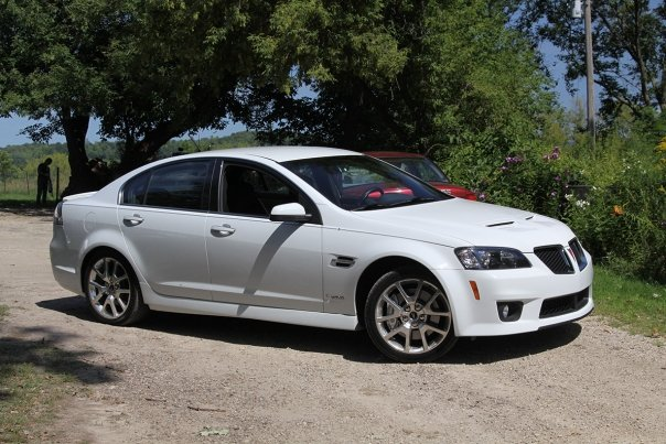 2009 Pontiac G8 GXP, White